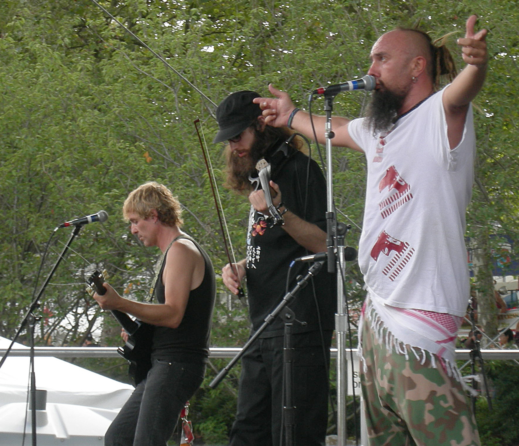 Seattle-based gypsy punk / alt metal band Kultur Shock perform at Bumbershoot, a music and arts festival held every Labor Day at Seattle Center, Seattle, Washington. These images of Kultur Shock's performance have been through a bit of sharpening (and in some cases blurring of irrelevant detail).